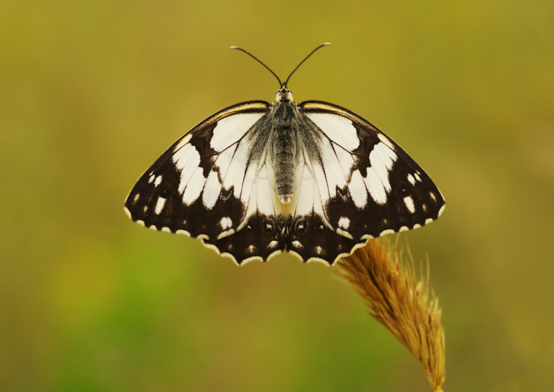 Melanargia wiskotti - Mediterranean Marbled White / Wiskott's marbled white. Adana, Turkey.